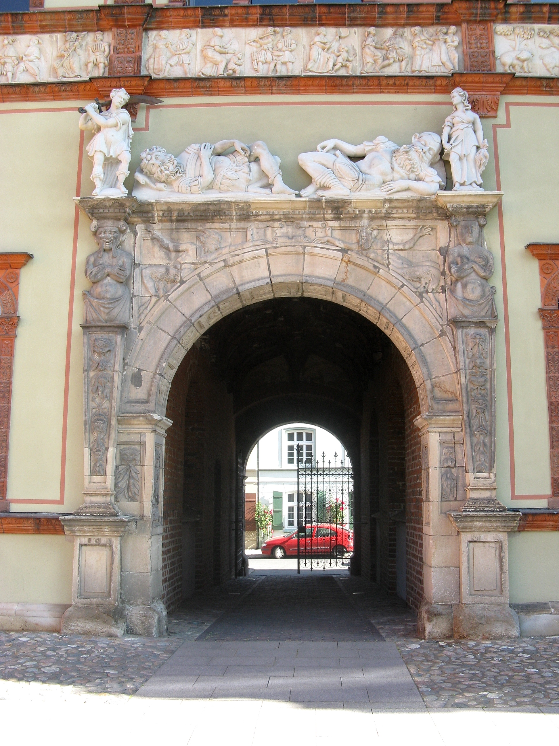 Fürstenhof in Wismar, Mecklenburg-Vorpommern, Germany - Detail